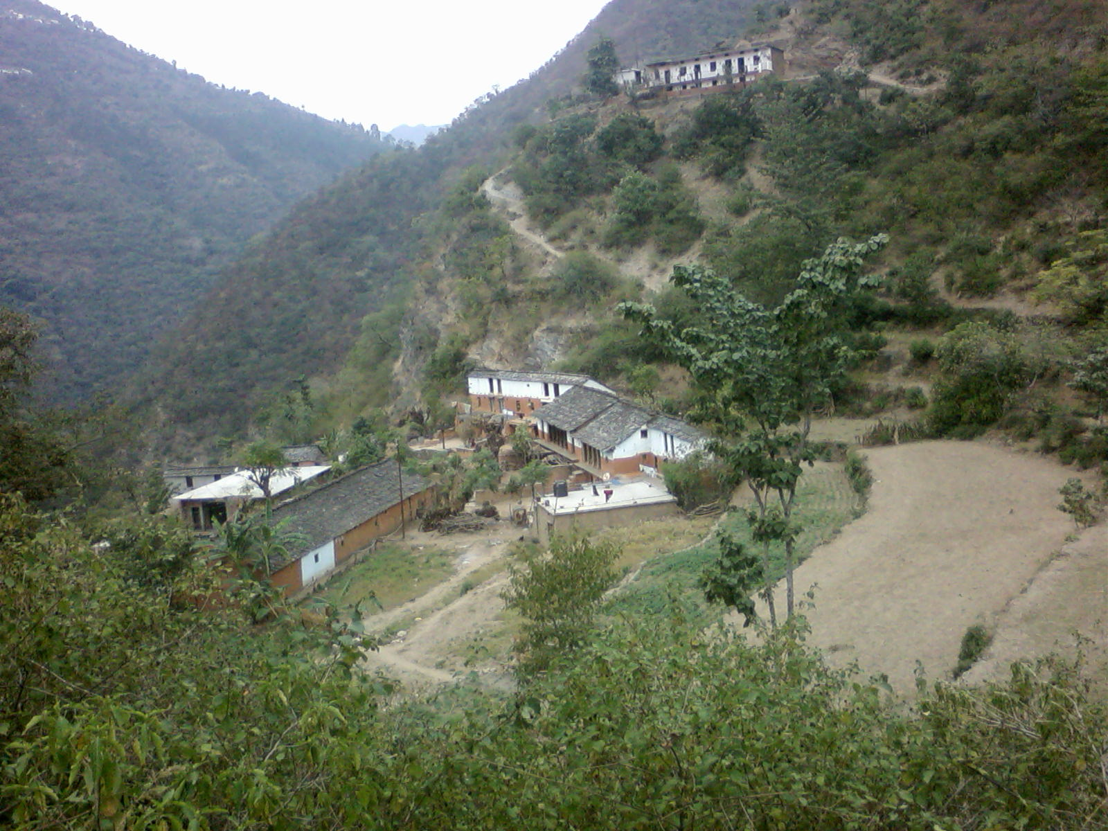 This is the picture of maroda gaon.